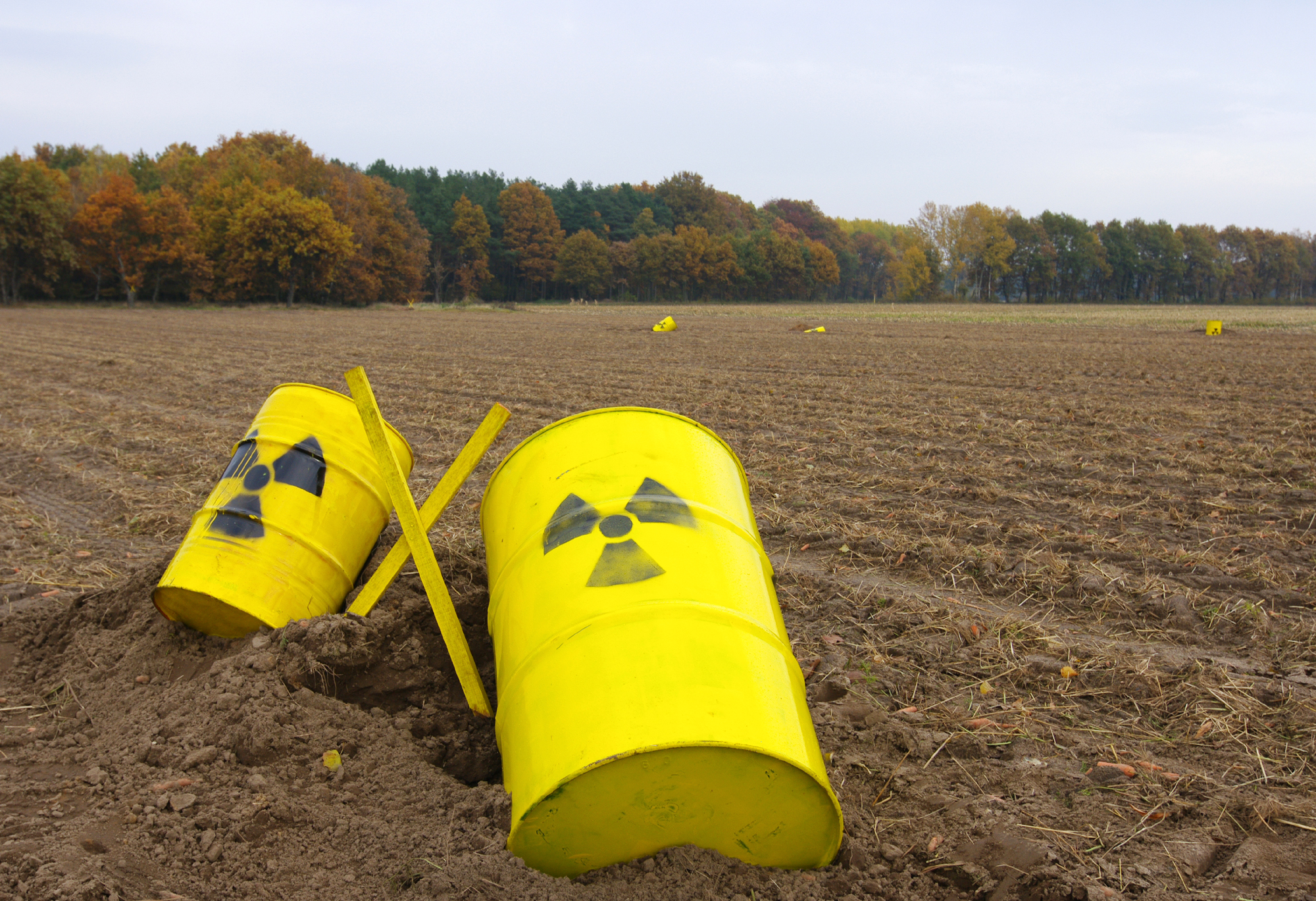 Creative expression of protest by the population in the Wendland (district Lüchow-Dannenberg) against German nuclear policy, the annual "Castor" transports to interim storage facility for German highly radioactive nuclear waste and the plans for a repository for highly radioactive nuclear waste in the salt dome Gorleben-Rambow. These "lost" barrels were spotted in a field between Küsten and Lübeln.